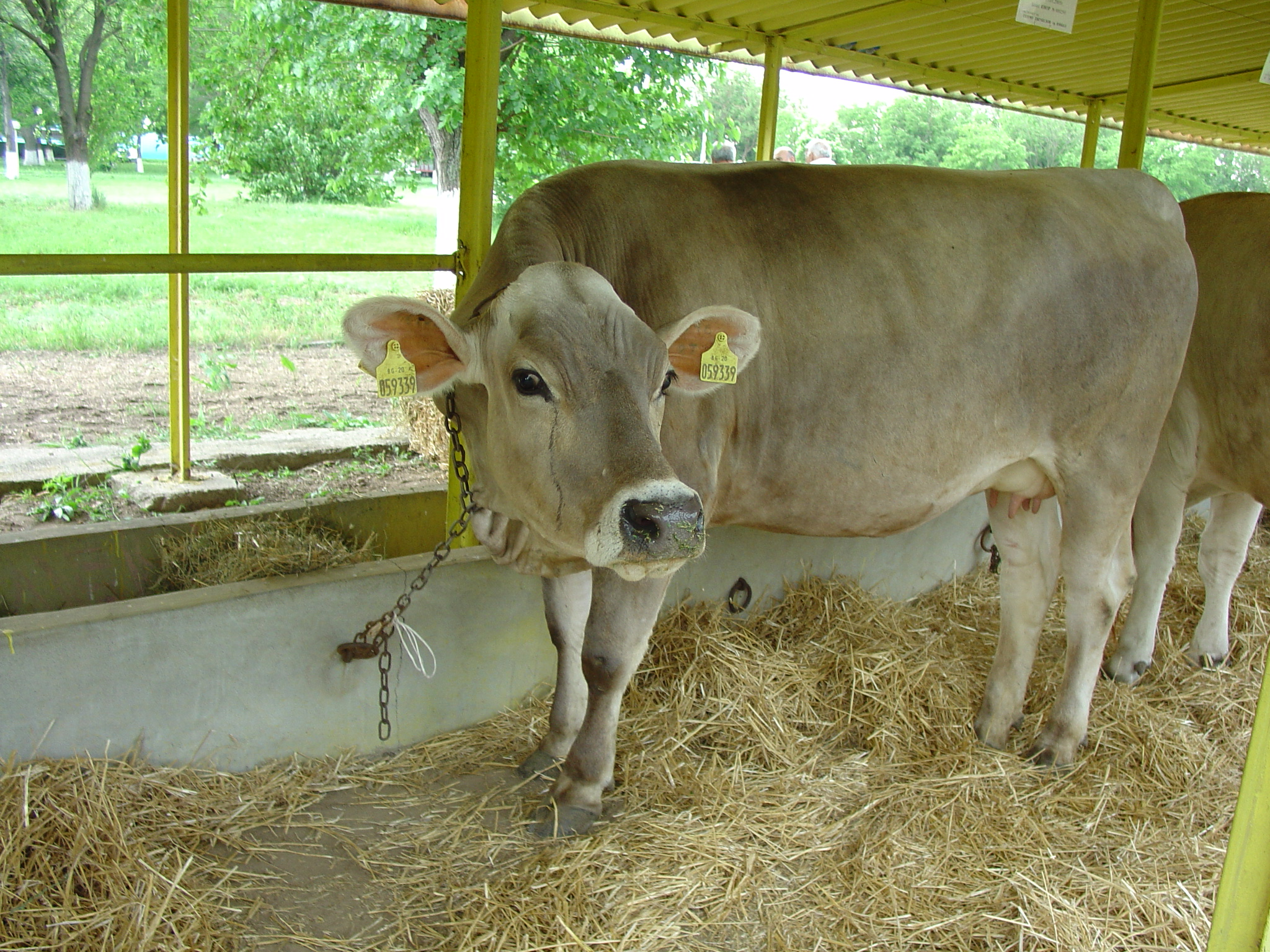 Bulgarian brown cattle